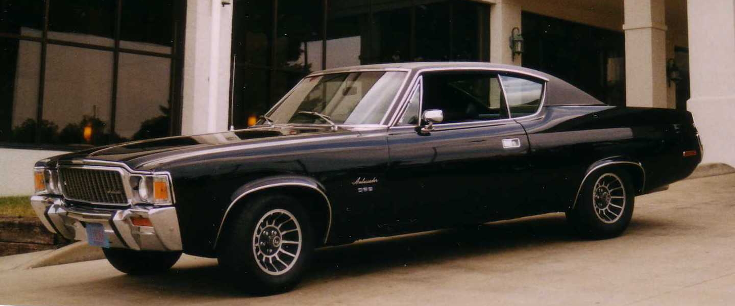 1971 Ambassador by American Motors Corporation (AMC) - This two-door hardtop finished in black. Please note that the wheels on this automobile are AMC's later-model (1979-1983) "TurboCast II" wheels. Also, the standard rocker panel trim is not installed on this vehicle.